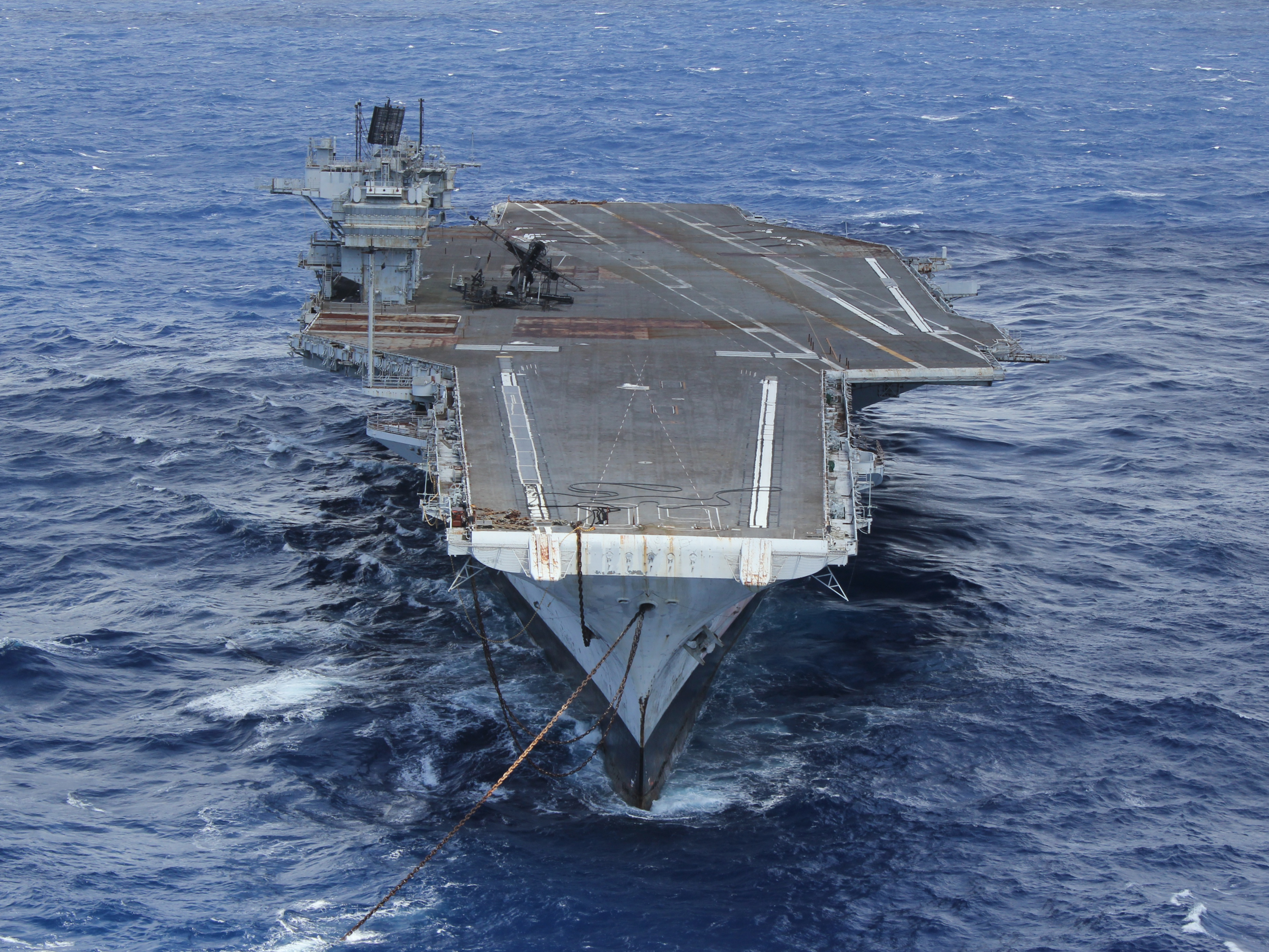 The decommissioned aircraft carrier USS Saratoga (CV-60) under tow off the coast of North Carolina en route to Brownsville, Texas (USA), for dismantling. Saratoga was decommissioned in 1994. The photographer, Lt. Cmdr Scott Moak, was one of the last active duty Saratoga sailors still serving in 2014.